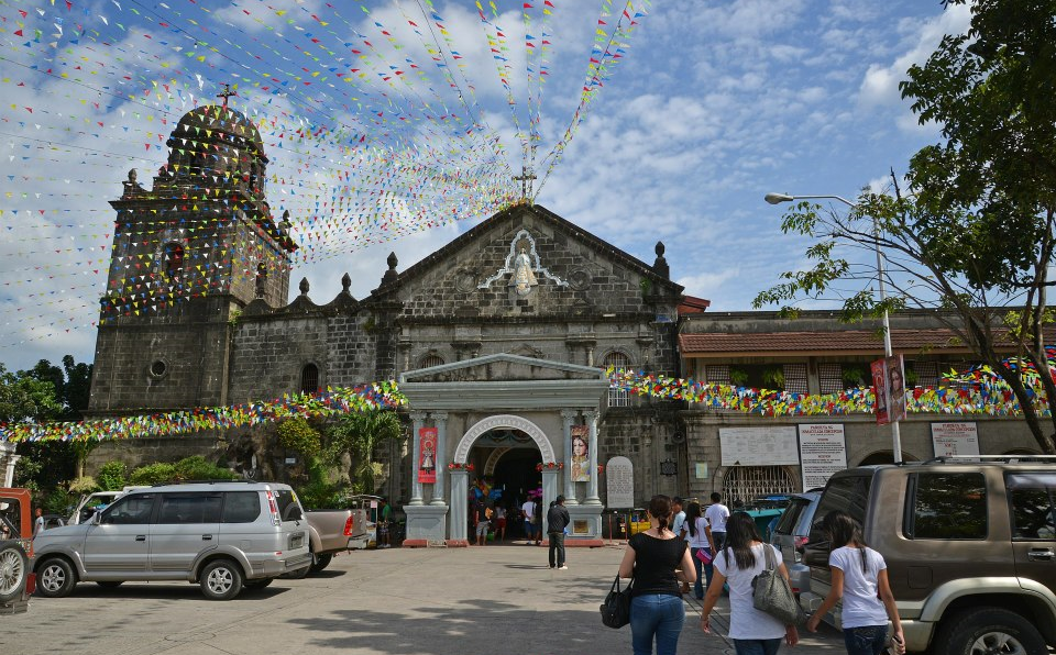 La Inmaculada Concepcion Parish Church